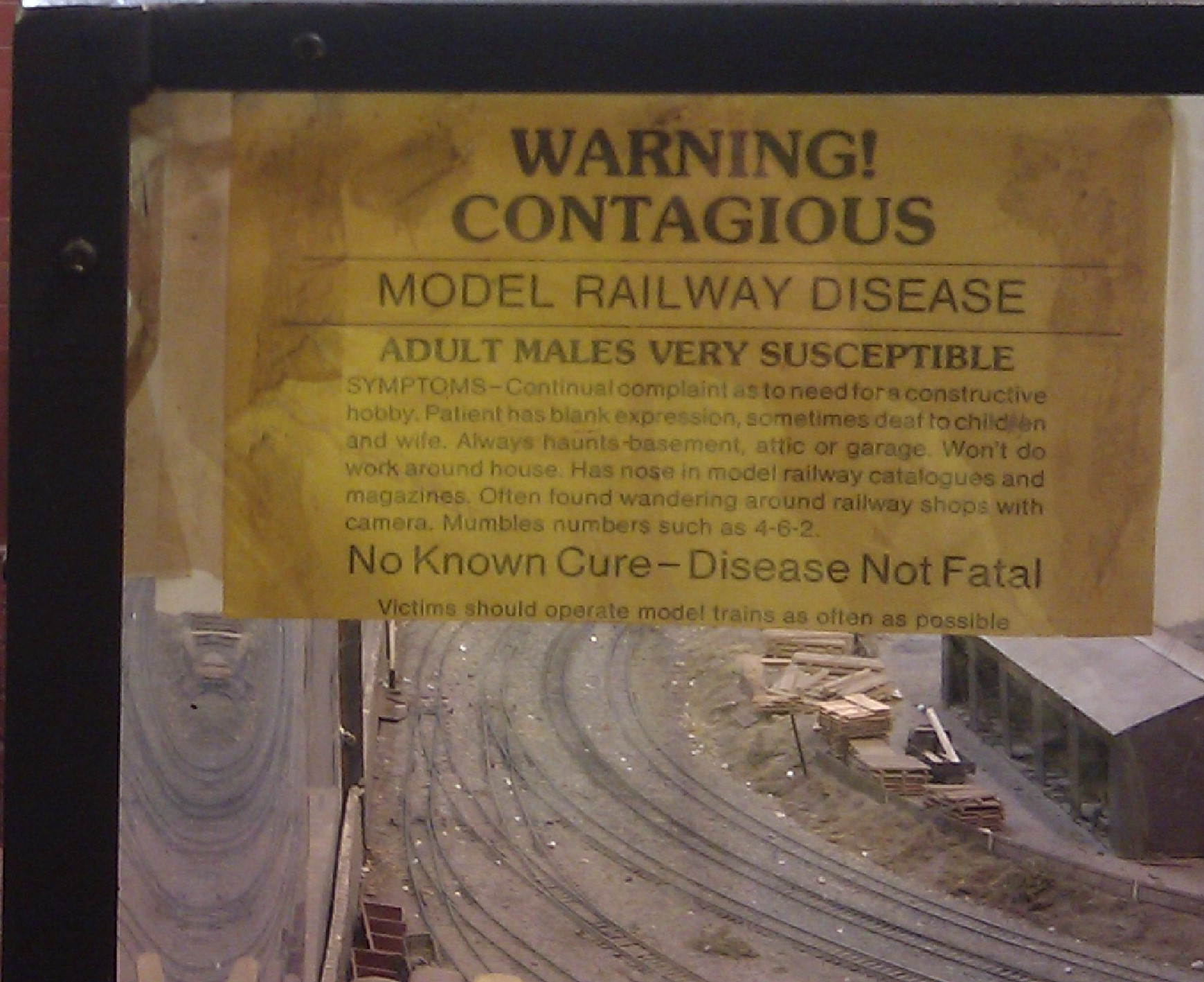 Model Railway disease poster in Wirral Transport Museum